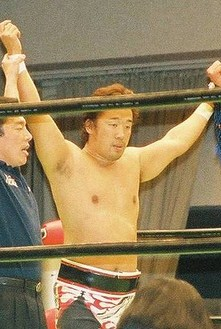 Yoshinobu Kanemaru on July 3, 2007. Cropped from original.